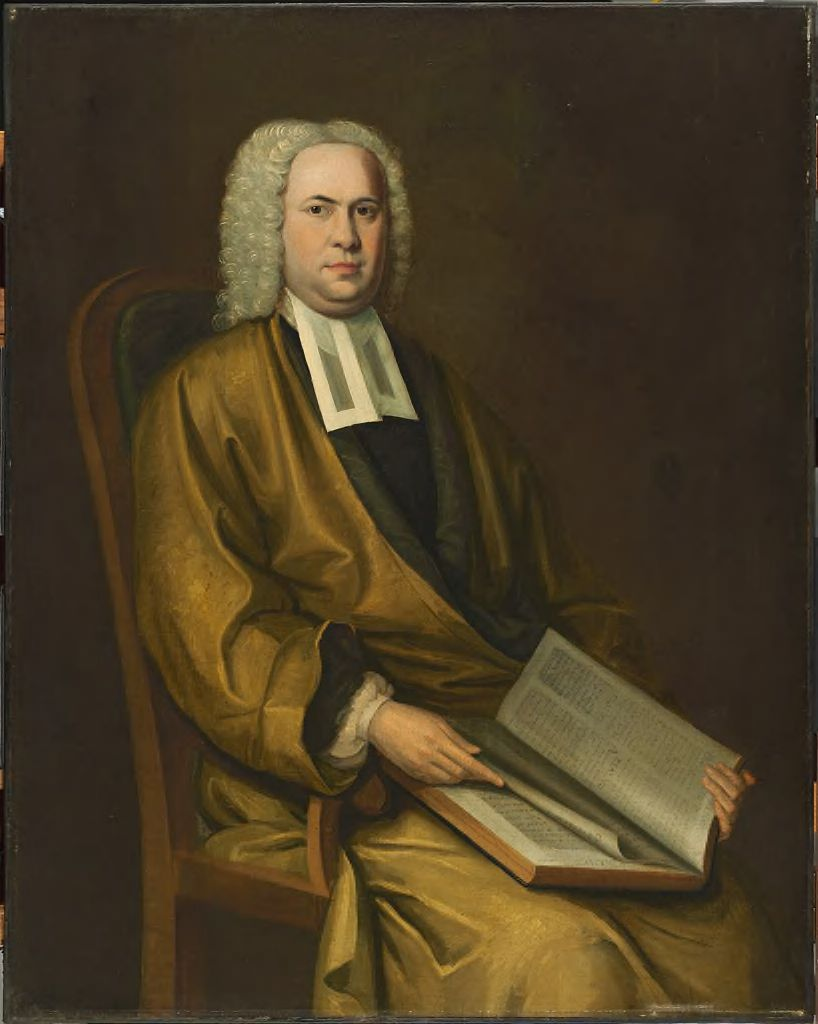 Portrait of a Cleric by Nathaniel Smibert (1735 - 1756), sometimes identified as Charles Chauncy (1592-1672), oil on canvas, Harvard University Portrait Collection, H4.